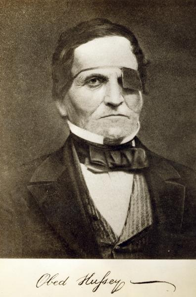 Portrait of inventor Obed Hussey (1782?-1860) as it appeared in W.T. Hutchinson's biography of Cyrus Hall McCormick. He is wearing an eye patch over his left eye. Hussey demonstrated a mechanical reaper around the same time that Cyrus McCormick first demonstrated his machine. Hussey and McCormick were parties in a lengthy lawsuit regarding the invention of the "first reaper."